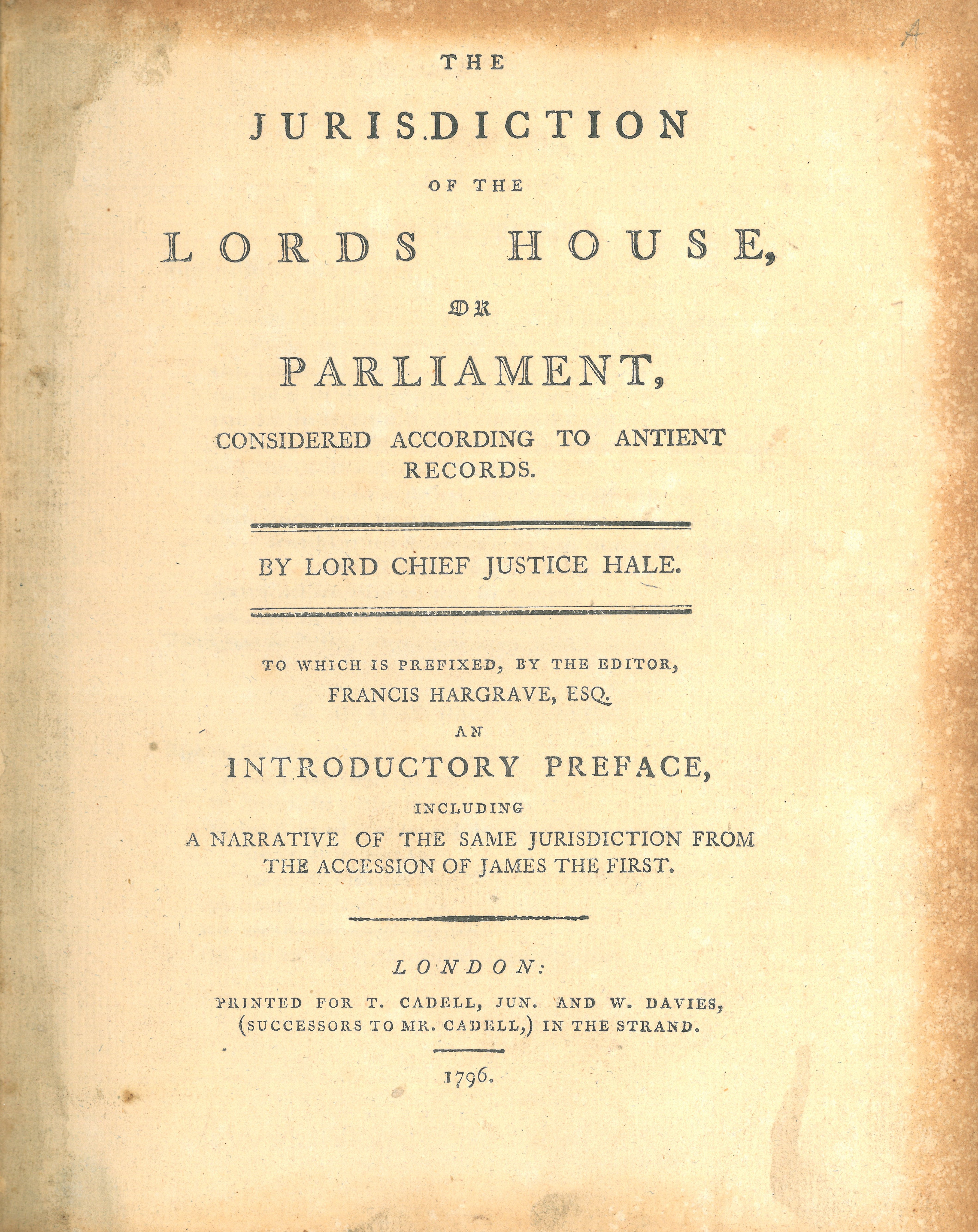 Title page of Matthew Hale (1796) Francis Hargrave , ed. The Jurisdiction of the Lords House, or Parliament, Considered According to Antient Records. By Lord Chief Justice Hale. To which is Prefixed, by the Editor, Francis Hargrave, Esq. an Introductory Preface, Including a Narrative of the Same Jurisdiction from the Accession of James the First, London: Printed for T[homas] Cadell, jun. and W. Davies, (successors to Mr. Cadell,) in the Strand OCLC: 173651801.